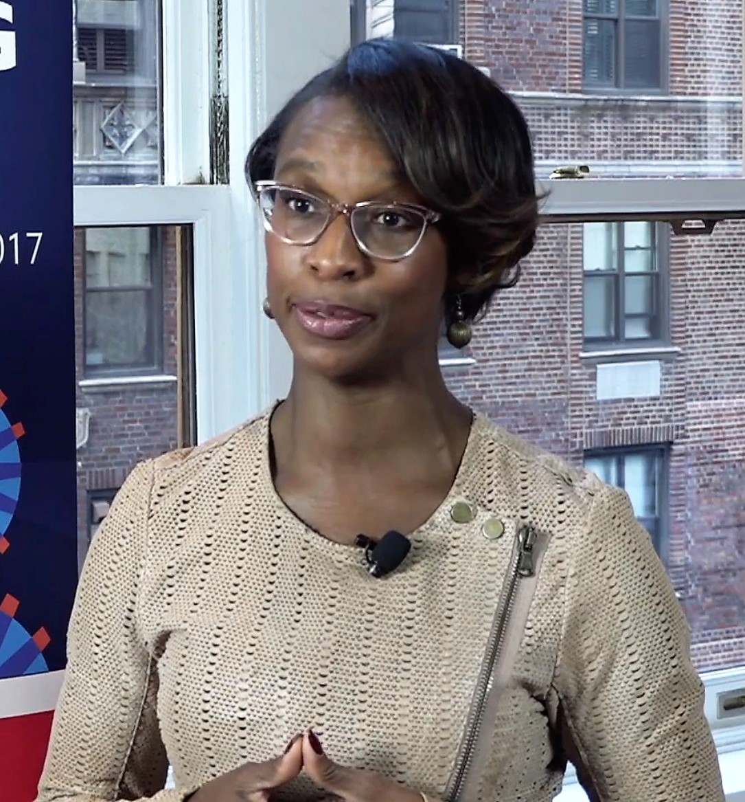 Manufacturing engineer and executive Alicia Boler Davis speaks for Brightline Project Management Institute in 2017. Today businesses need to navigate the increasingly complex interplay of many powerful disruptive forces: seismic shifts in the geopolitical landscape, the environment, technological innovation and a new generation that is being shaped by all of the above. Companies are realizing that they must invest in their future if they want one, but delivering results today is more important than ever.